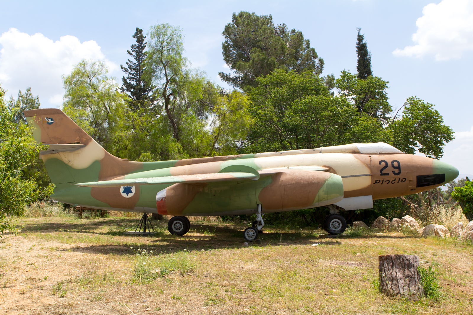 The Sud-Ouest Vautour standing as a memorial in Kfar Giladi, Israel